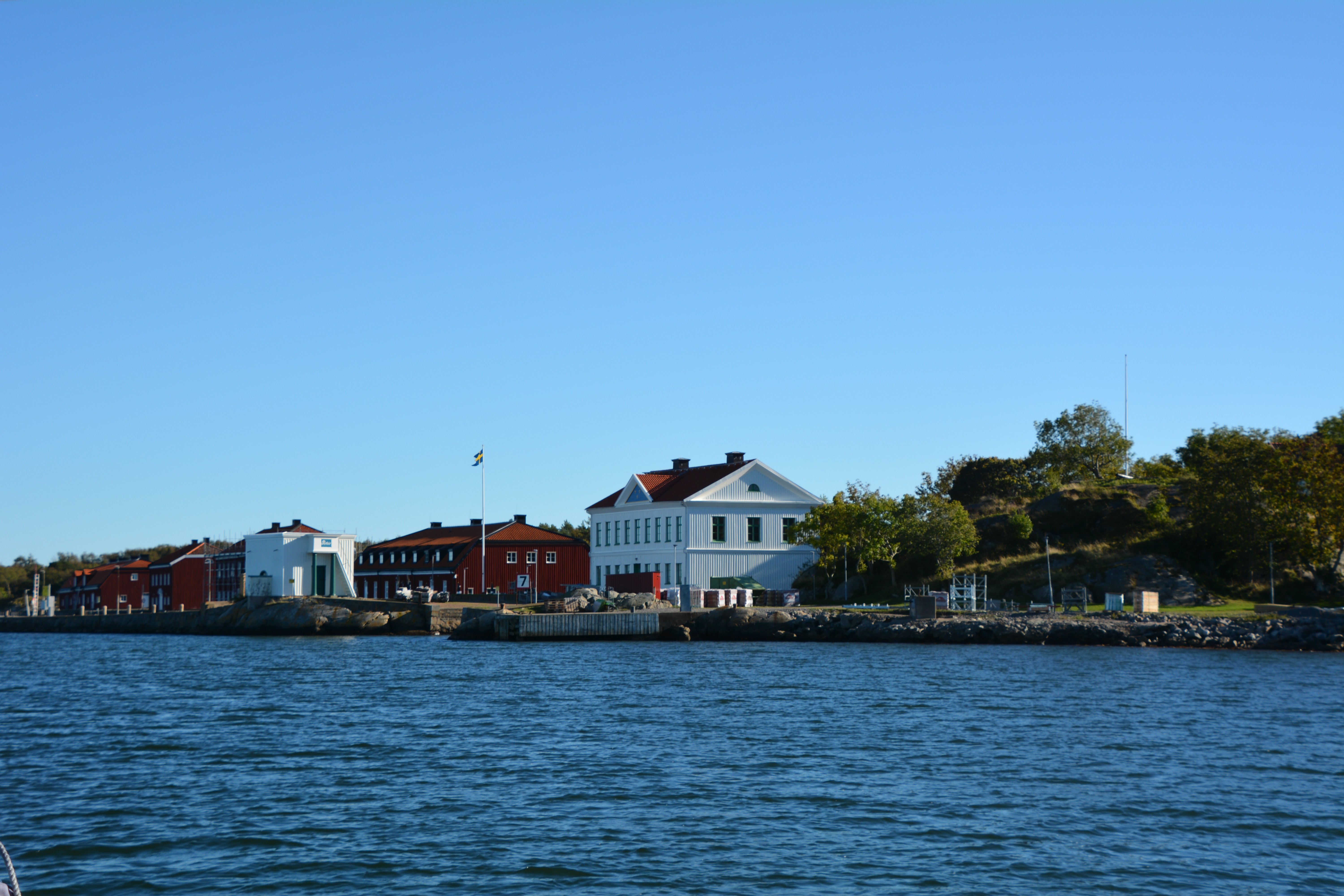 Känsö hamn